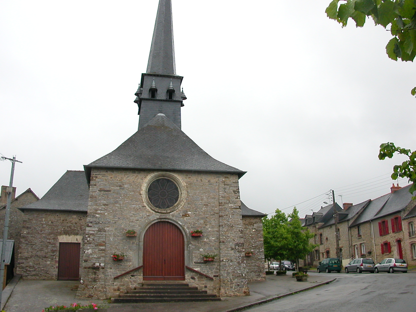 Church of Poligné